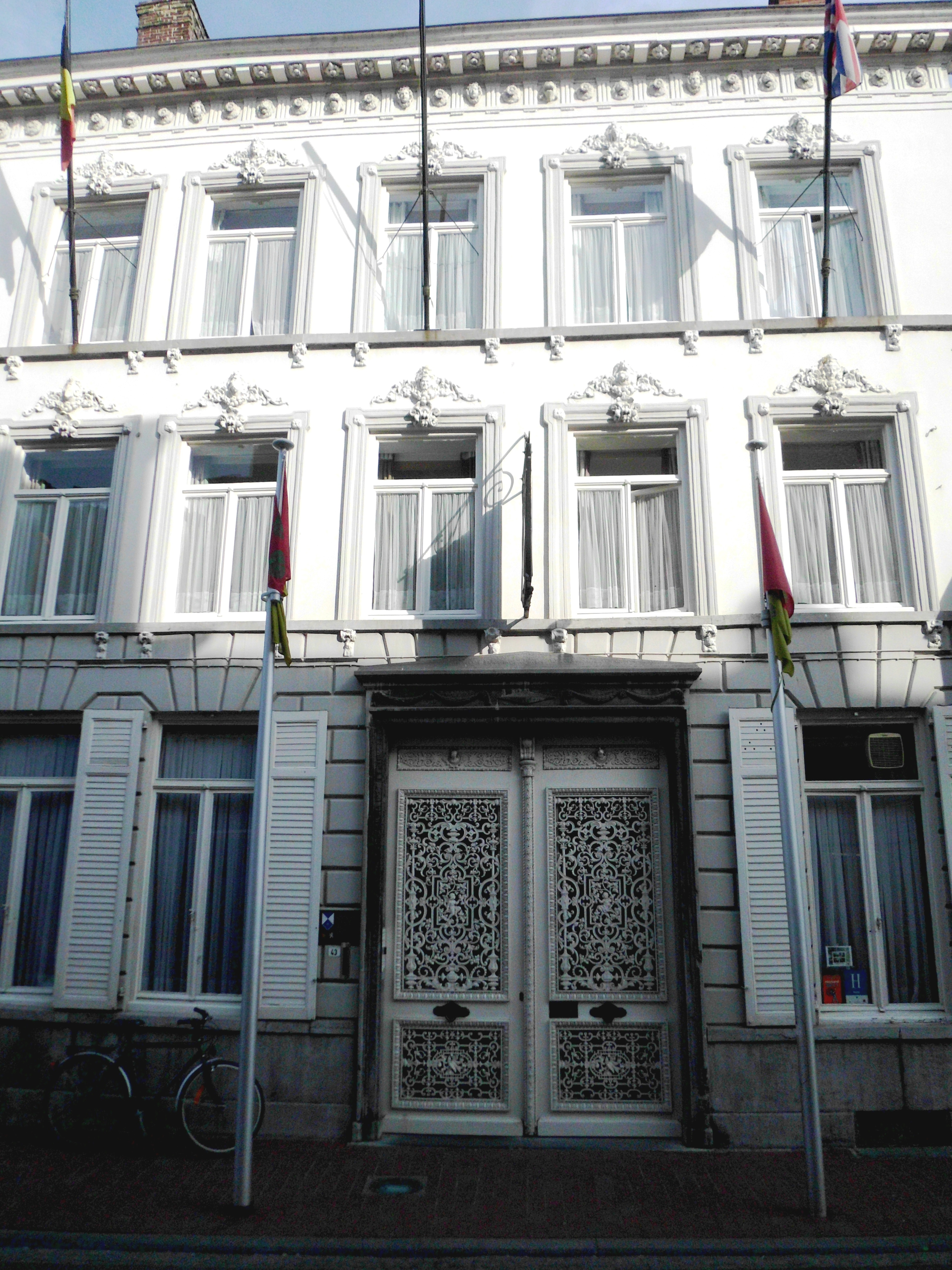 Talbot House in the town of Poperinge